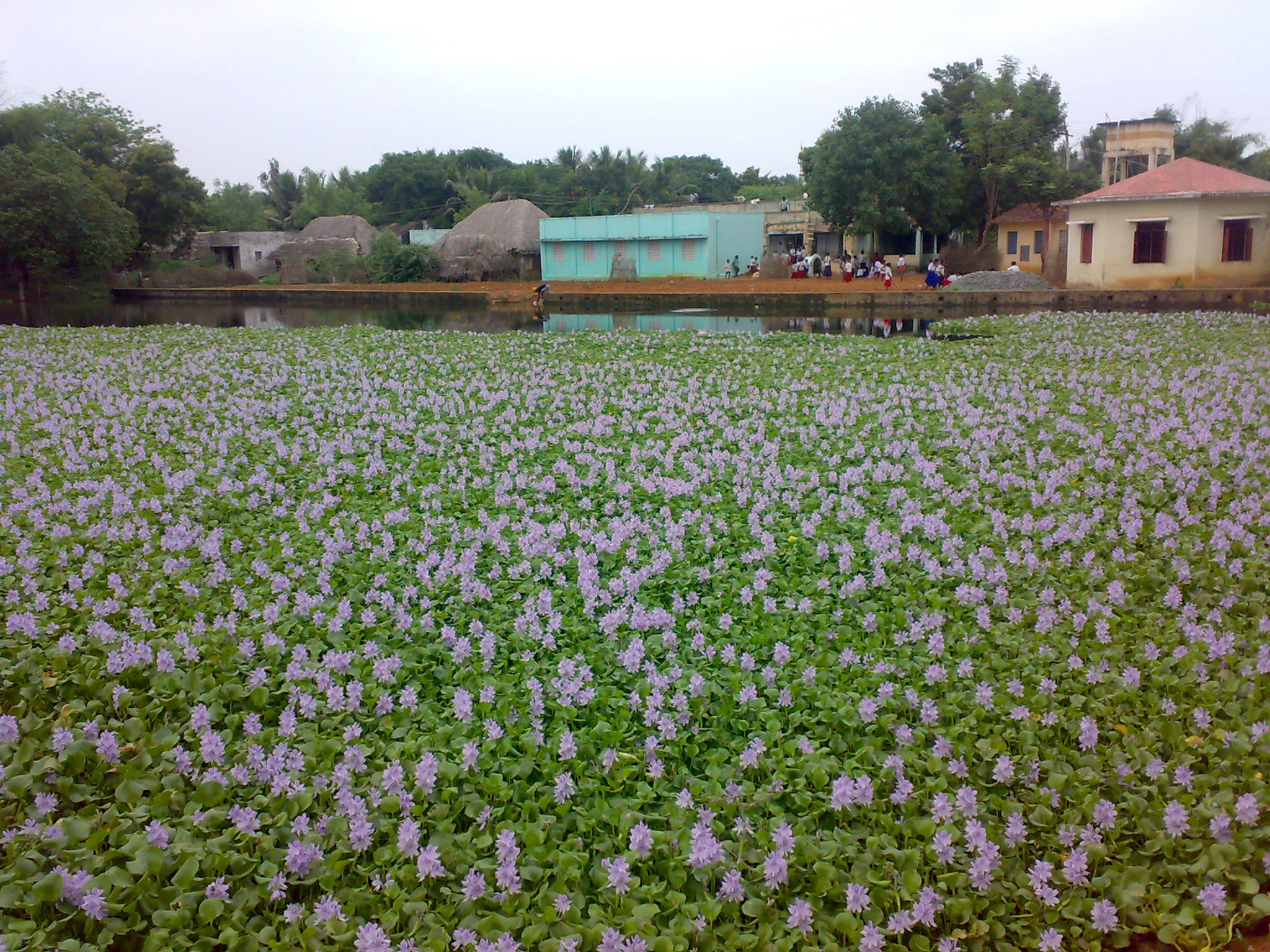 Arts and Culture